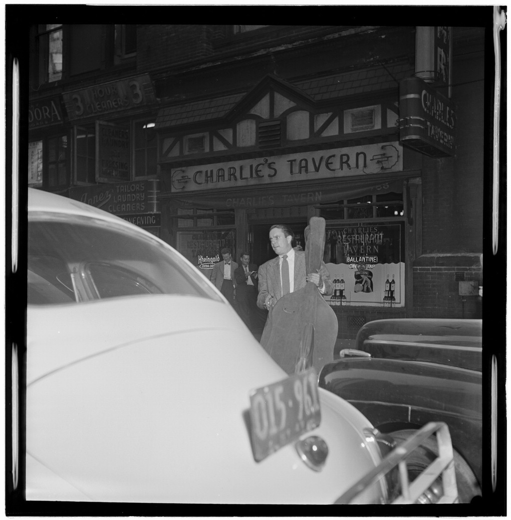 Gottlieb, William P., 1917-, photographer. [Portrait of Bob Haggart, Charlie's Tavern, New York, N.Y., between 1946 and 1948] 1 negative : b&w ; 2 1/4 x 2 1/4 in. Notes: Gottlieb Collection Assignment No. 542 Reference print available in Music Division, Library of Congress. Purchase William P. Gottlieb Forms part of: William P. Gottlieb Collection (Library of Congress). Subjects: Haggart, Bob Jazz musicians--1940-1950. Double bassists--1940-1950. Charlie's Tavern Format: Portrait photographs--1940-1950. Film negatives--1940-1950. Rights Info: Mr. Gottlieb has dedicated these works to the public domain, but rights of privacy and publicity may apply. Repository: (negative) Library of Congress, Prints & Photographs Division, Washington D.C. 20540 USA, (reference print) Library of Congress, Music Division, Washington D.C. 20540 USA, Part Of: William P. Gottlieb Collection (DLC) 99-401005 General information about the Gottlieb Collection is available at Persistent URL: Call Number: LC-GLB23- 0376 This work is from the William P. Gottlieb collection at the Library of Congress. Rights and restrictions.In accordance with the wishes of William Gottlieb, the photographs in this collection entered into the public domain on February 16, 2010.